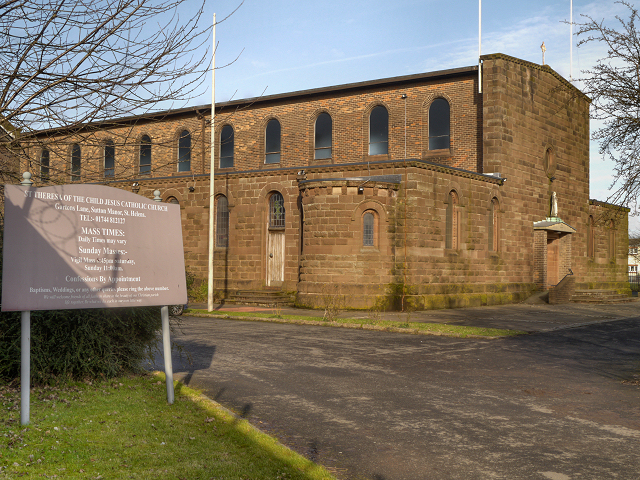 Photo of St Theresa of the Child Jesus Catholic Church, Sutton Manor